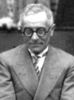 Tullio Levi-Civita in 1930. Detail from a group photograph at the Edinburgh Mathematics Society Colloquium at St Andrews in 1930 posted [1]